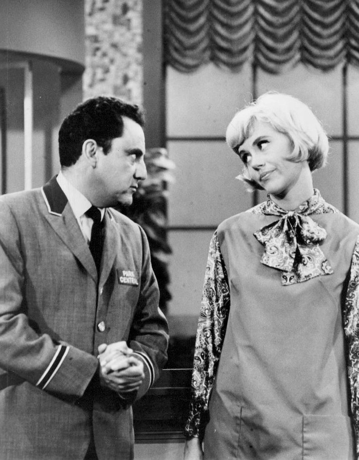 Photo of Bill Dana as Jose Jimenez and Maggie Peterson (aka Maggie Mancuso) as Susie, the coffee shop lady at the hotel, from the television program The Bill Dana Show.